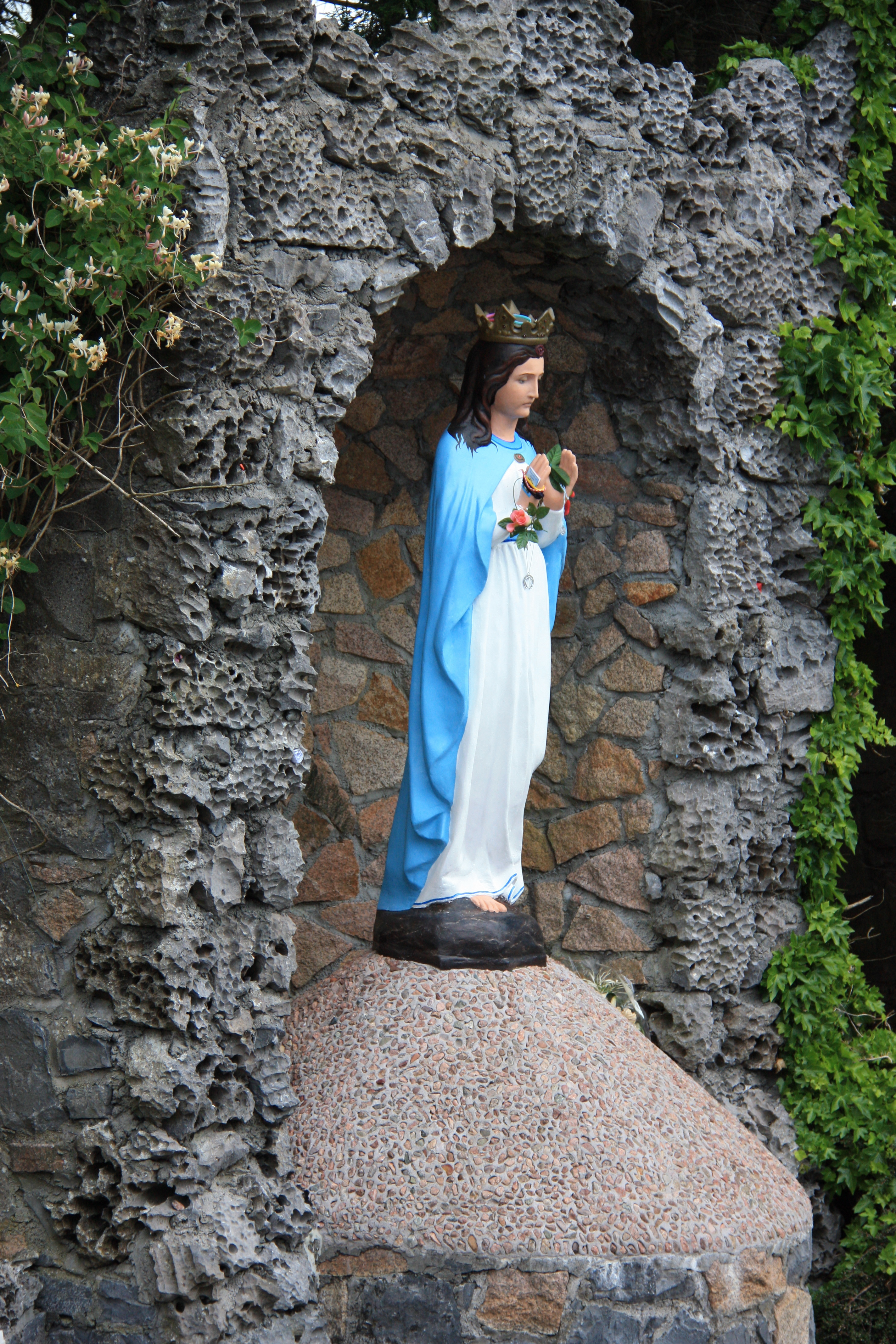 Holy Mary framed in blocks of karst-stone